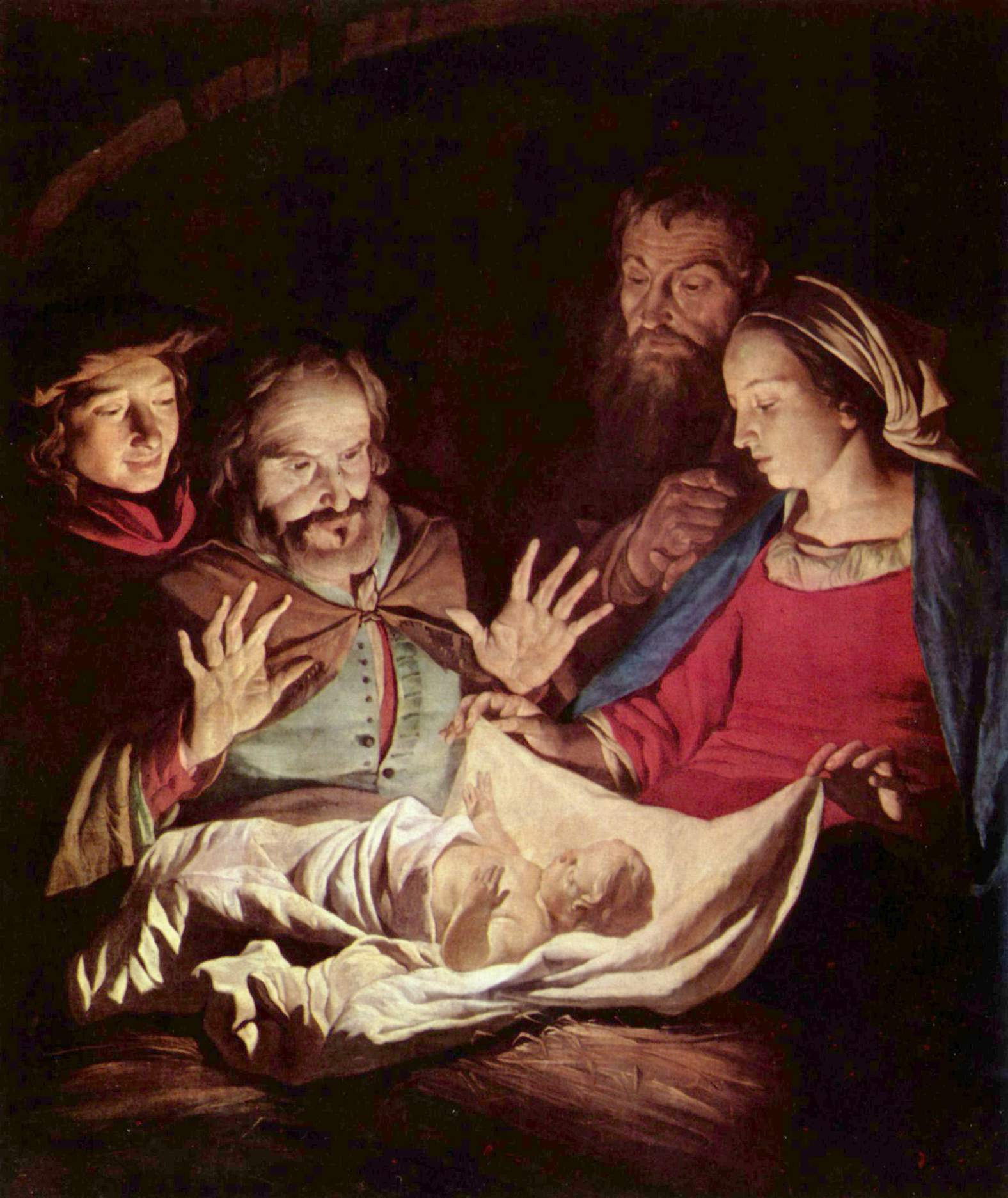 Once thought to be by his teacher, Gerard van Honthorst (1592–1656) Alternative names Gerard Honthorst, Gerard Hermansz. van Honthorst, Gerardus Honthorst, Gerrit van Hondhorst, Gerrit Honthorst, Gerrit van Honthorst, Gherardo Fiammingo, Gherardo della Notte, Gherardo delle Notti, Gherardo Delle NottiDescriptionDutch painter, printmaker and ornamental painterDate of birth/death 4 November 1592 27 April 1656 Location of birth/death Utrecht UtrechtWork location Utrecht, Rome (1610–1620), Utrecht (1620–1628), London (May 1628-December 1628), The Hague (1637–1651), Utrecht (1652–1656)Authority control : Q314548 VIAF: 17494224 ISNI: 0000 0001 1561 2358 ULAN: 500051681 LCCN: nr96007892 WGA: HONTHORST, Gerrit van WorldCat creator QS:P170,Q314548